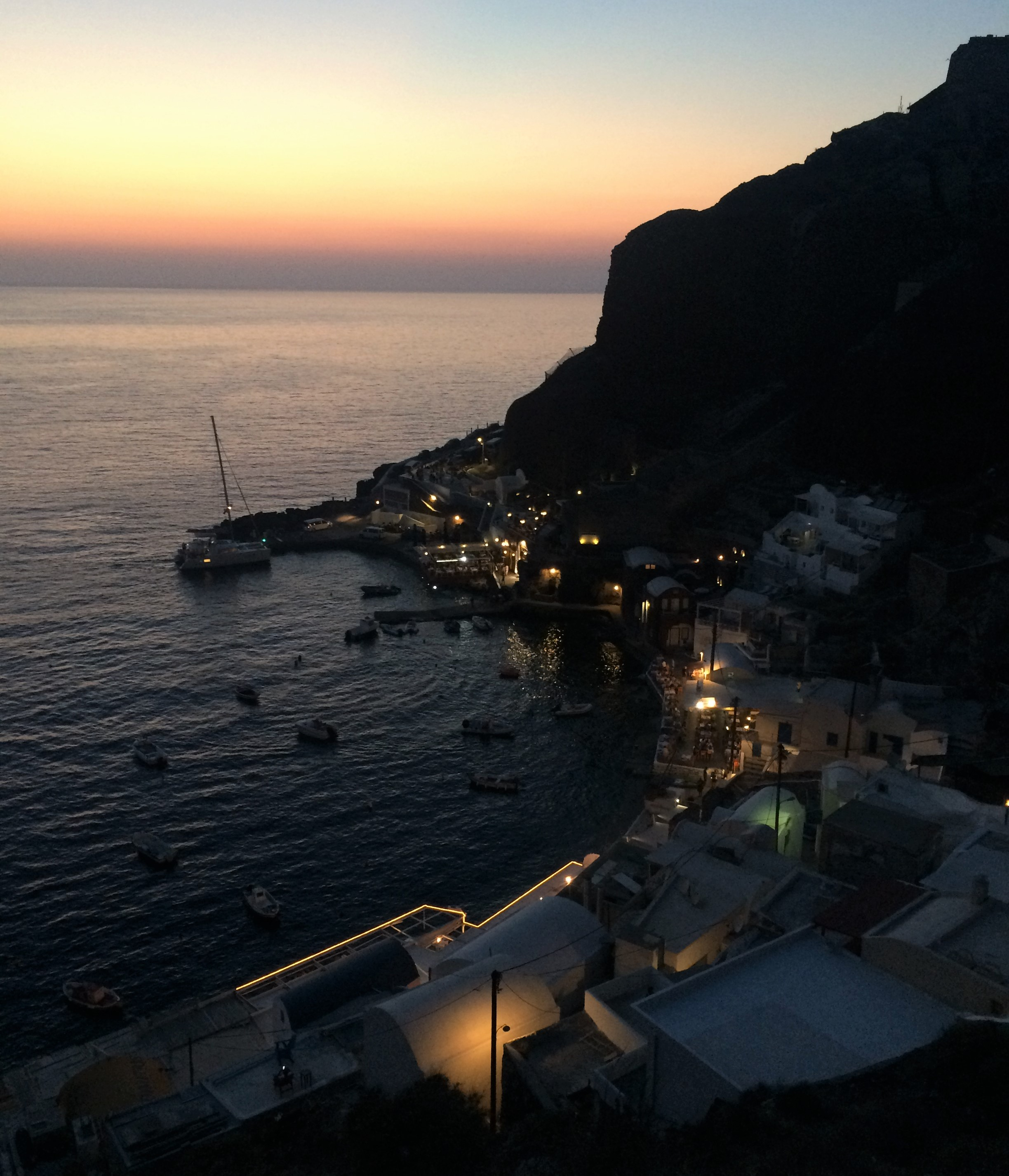 Amoudi Bay (on the island of Santorini, Greece) at dusk. Taken from the steps leading from Amoudi up to Oia.